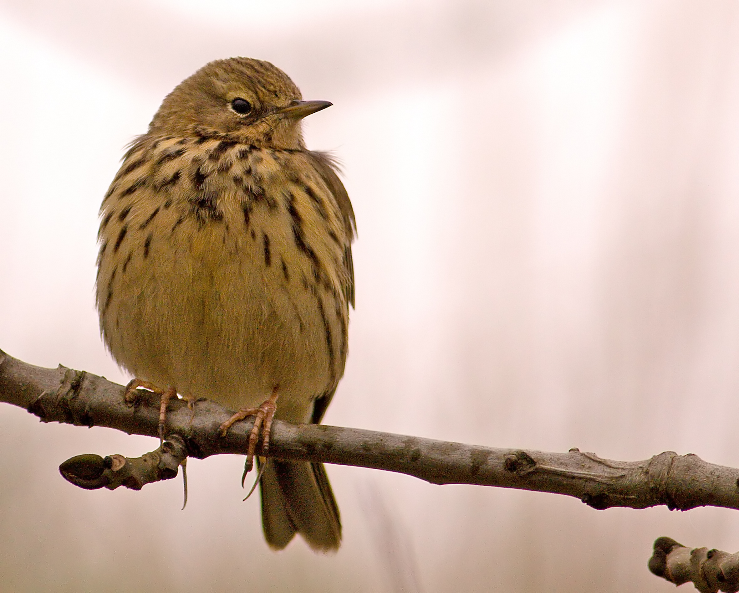 Meadow pipit